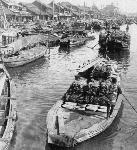 A busy freight canal in Tokyo